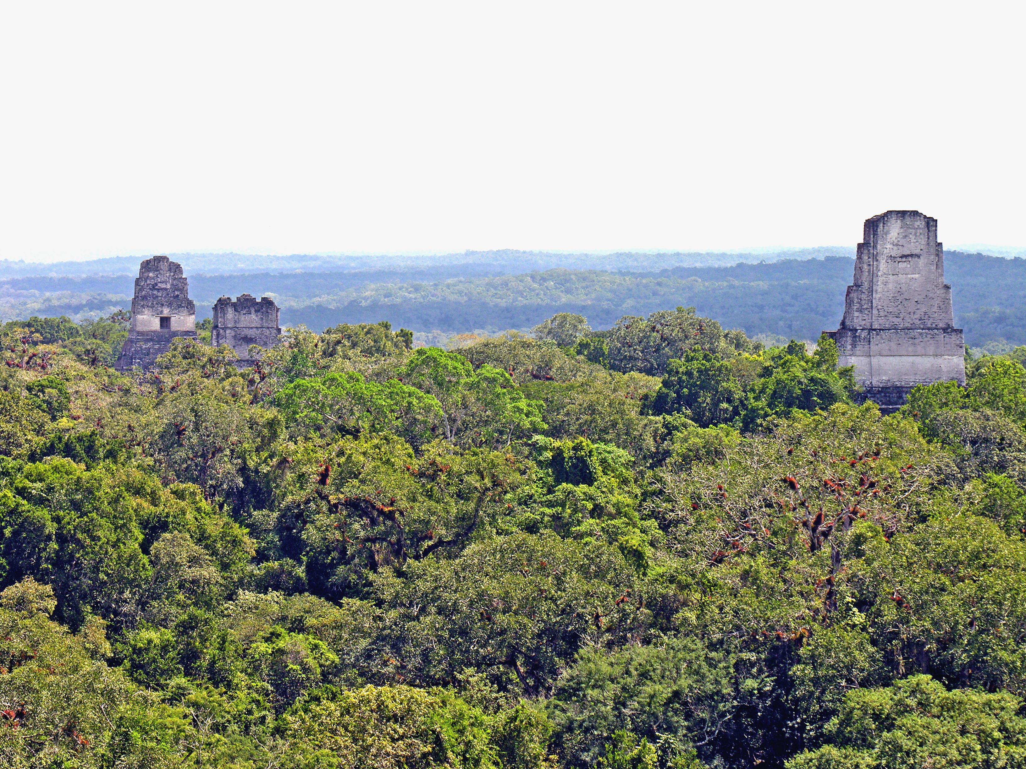 Tikal, Guatemala. From the top Temple IV it is possible to see, (left to right) Temples I, II and III rising above the forest canopy.